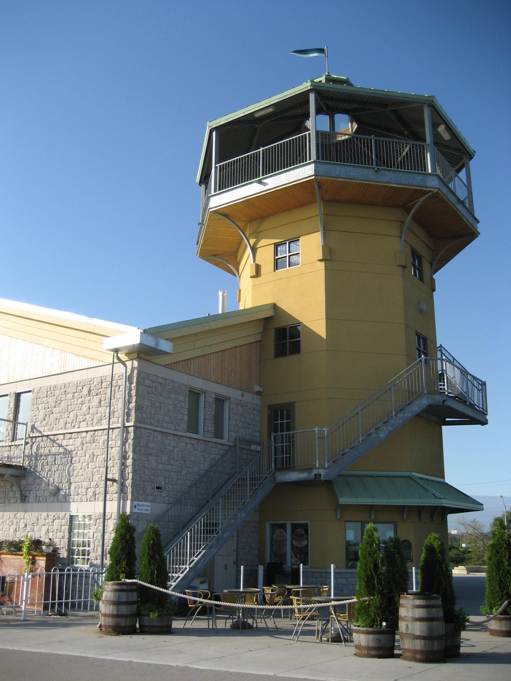 Lakeland Bistro, Waterfront Trail, Hamilton, Canada.